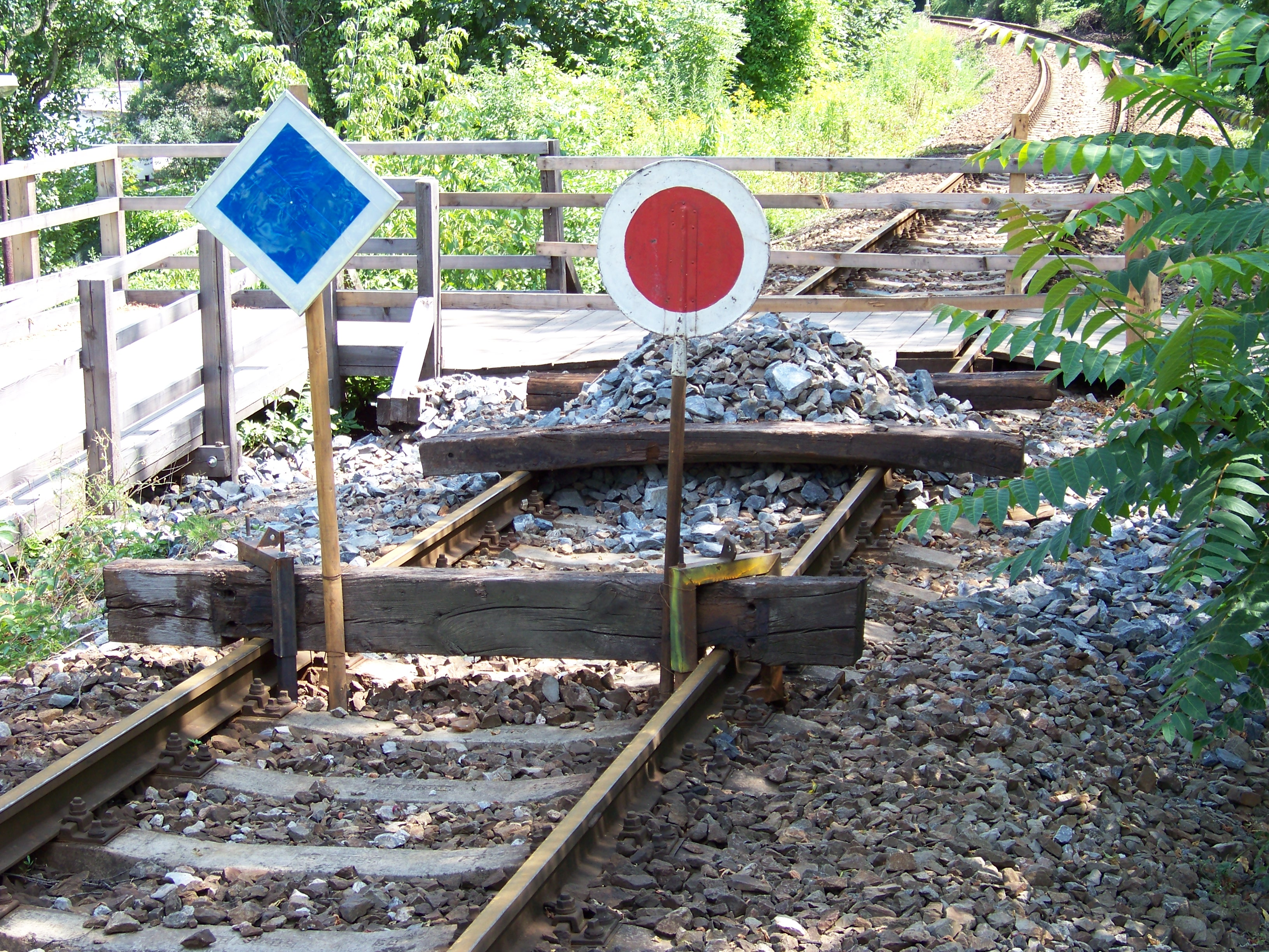 Dejvice, Prague, the Czech Republic. The temporary train station "Praha-Gymnasijní".